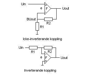 OP-configurations